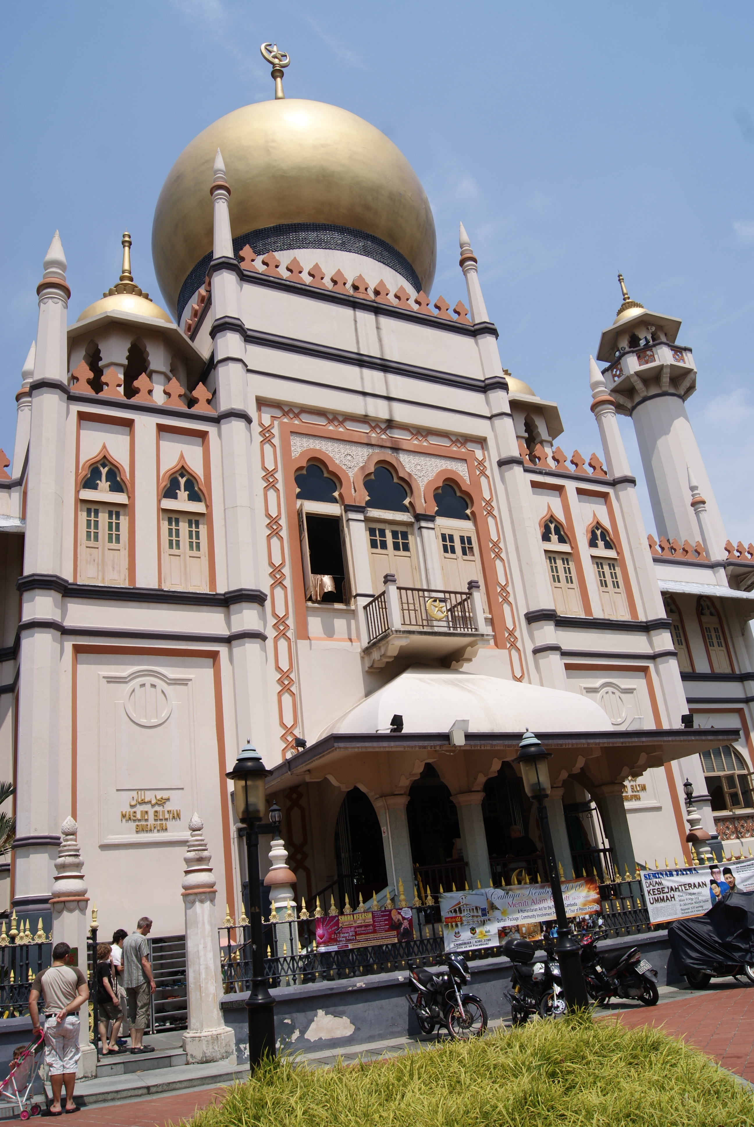 Masjid Sultan (Sultan Mosque), Singapore.